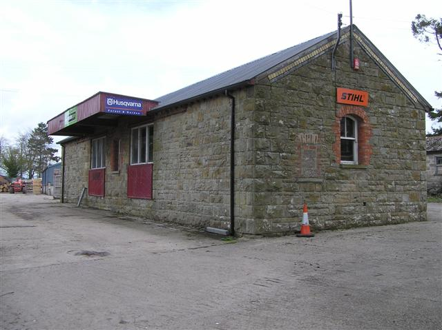 Clogher Railway Station. This is the goods store, still being used for storage.